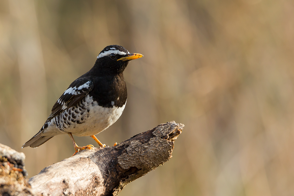 From Sattal India